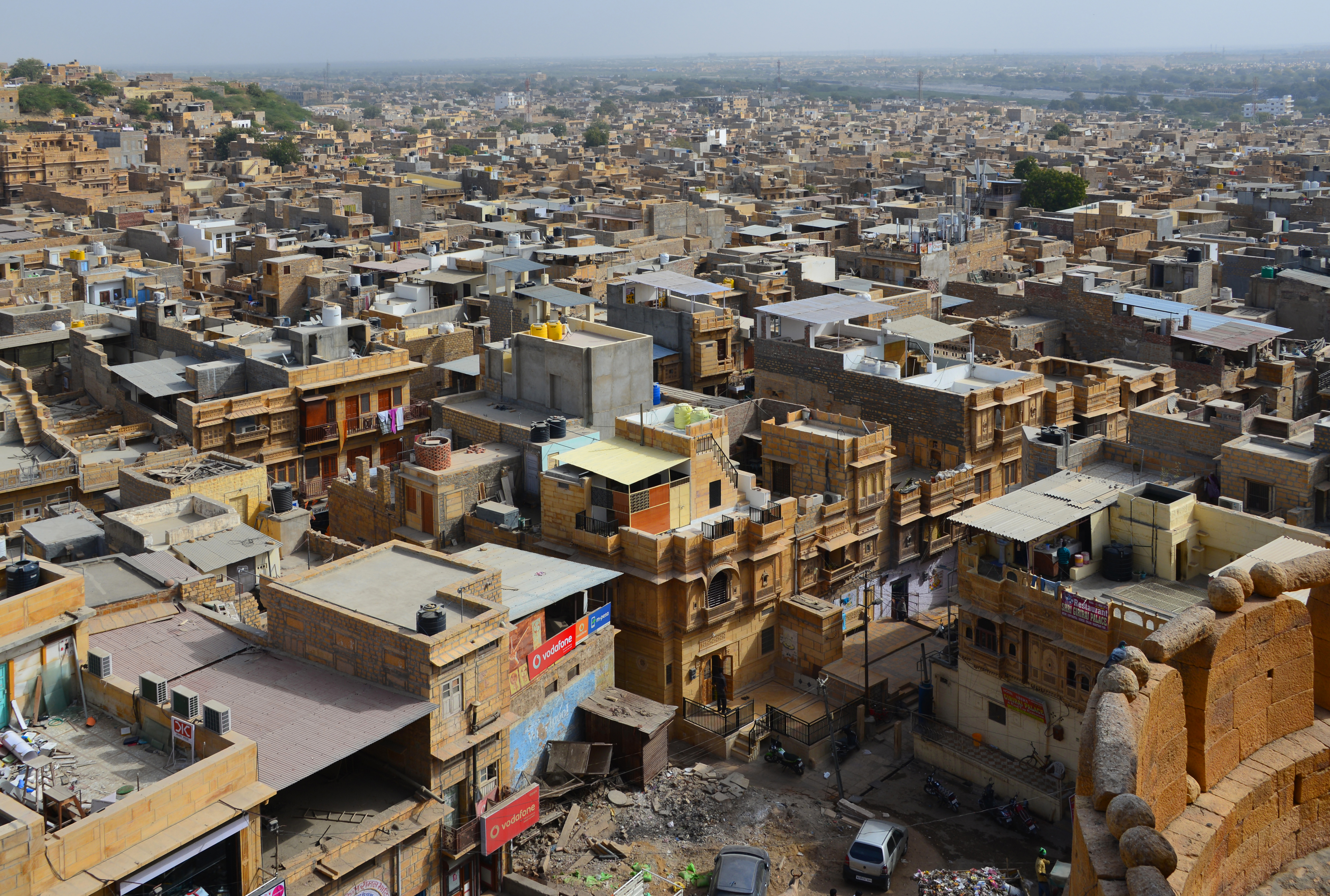 Jaisalmer, India